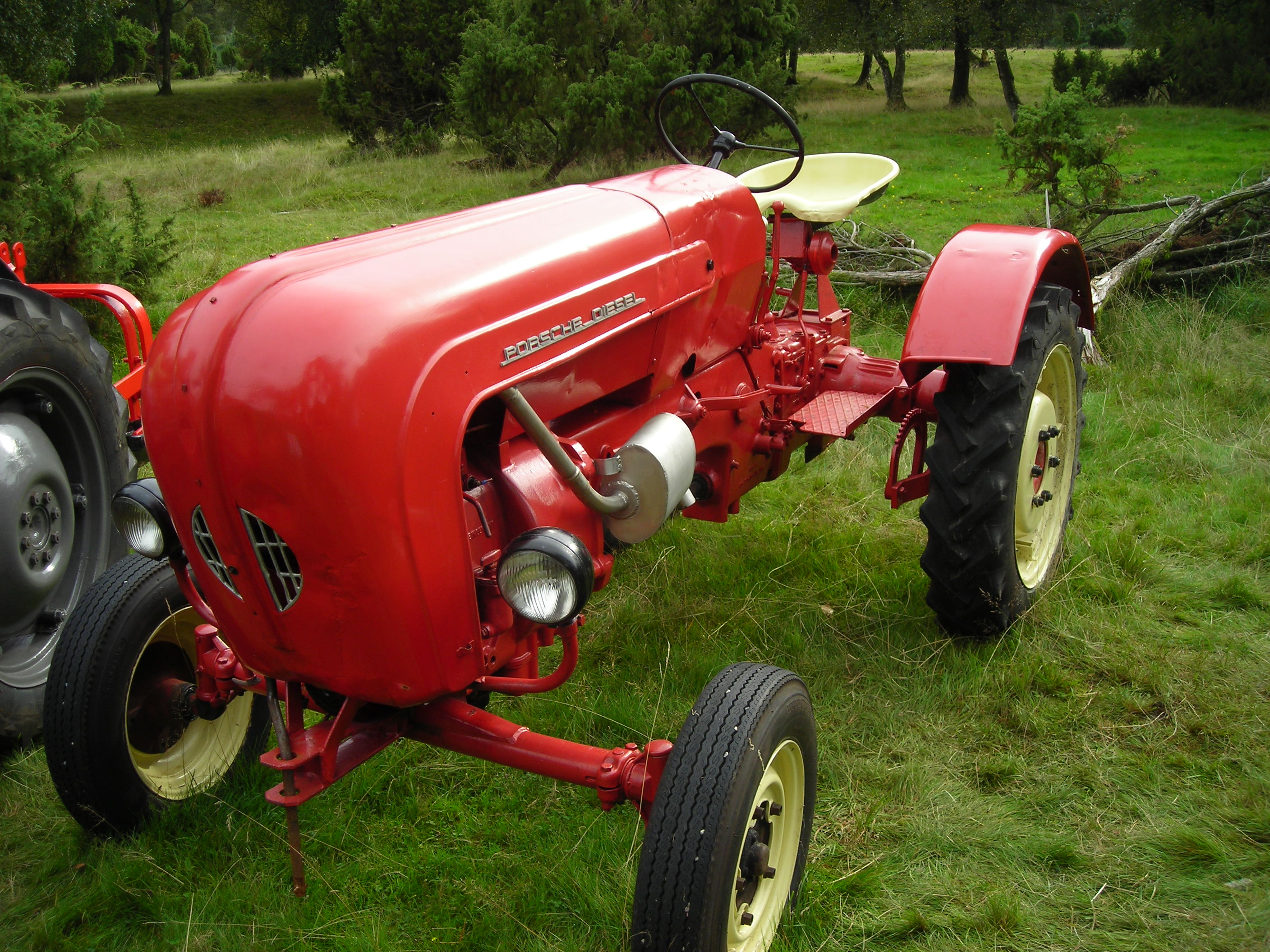 1958 Porsche Diesel Junior photographed at Lyngdal Dyrskue september 2006